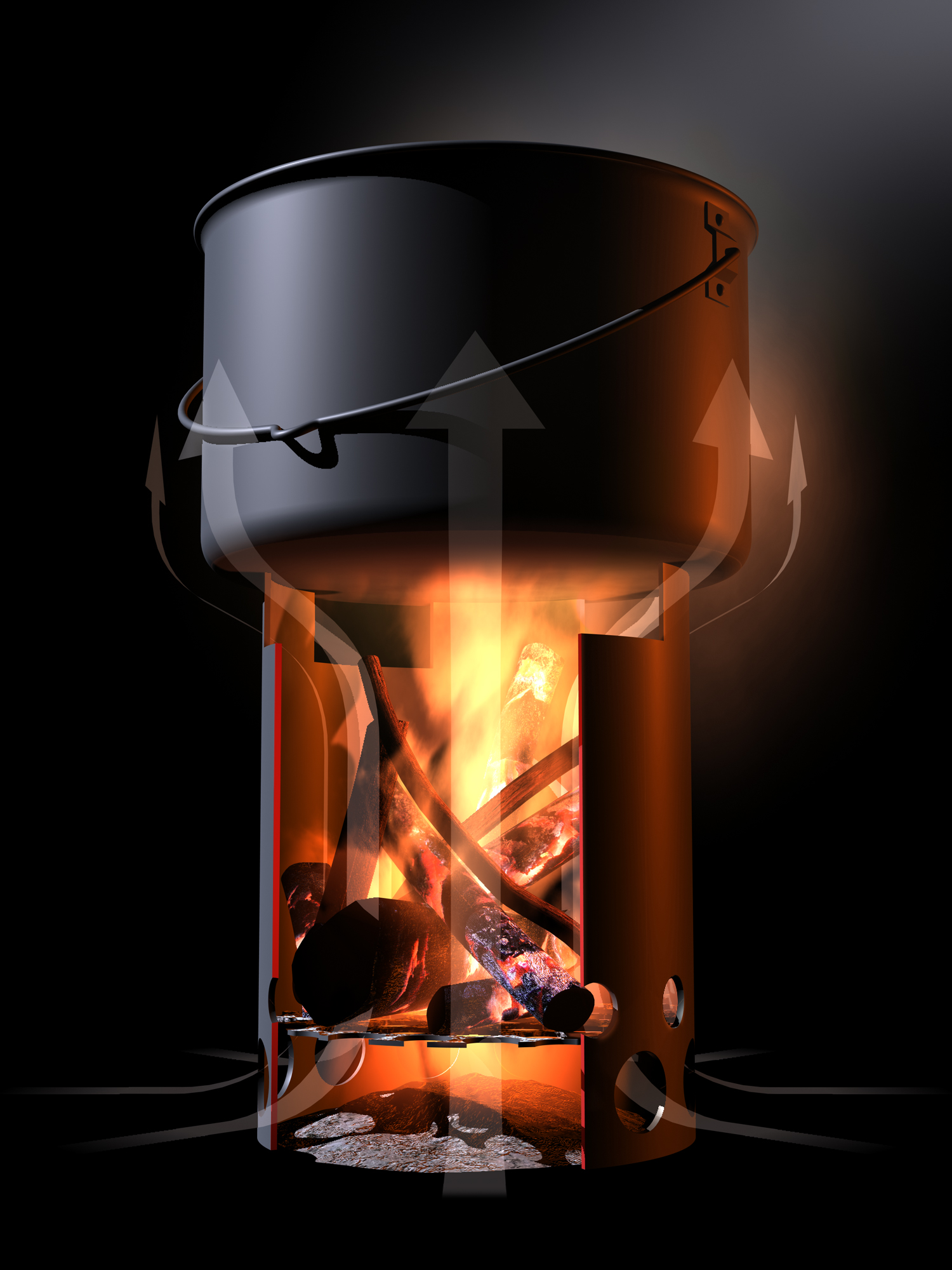 Cutaway illustration of a hobo stove including air convection. Done in Cinema 4D. Hobo stove: an improvised portable heat-producing and cooking device